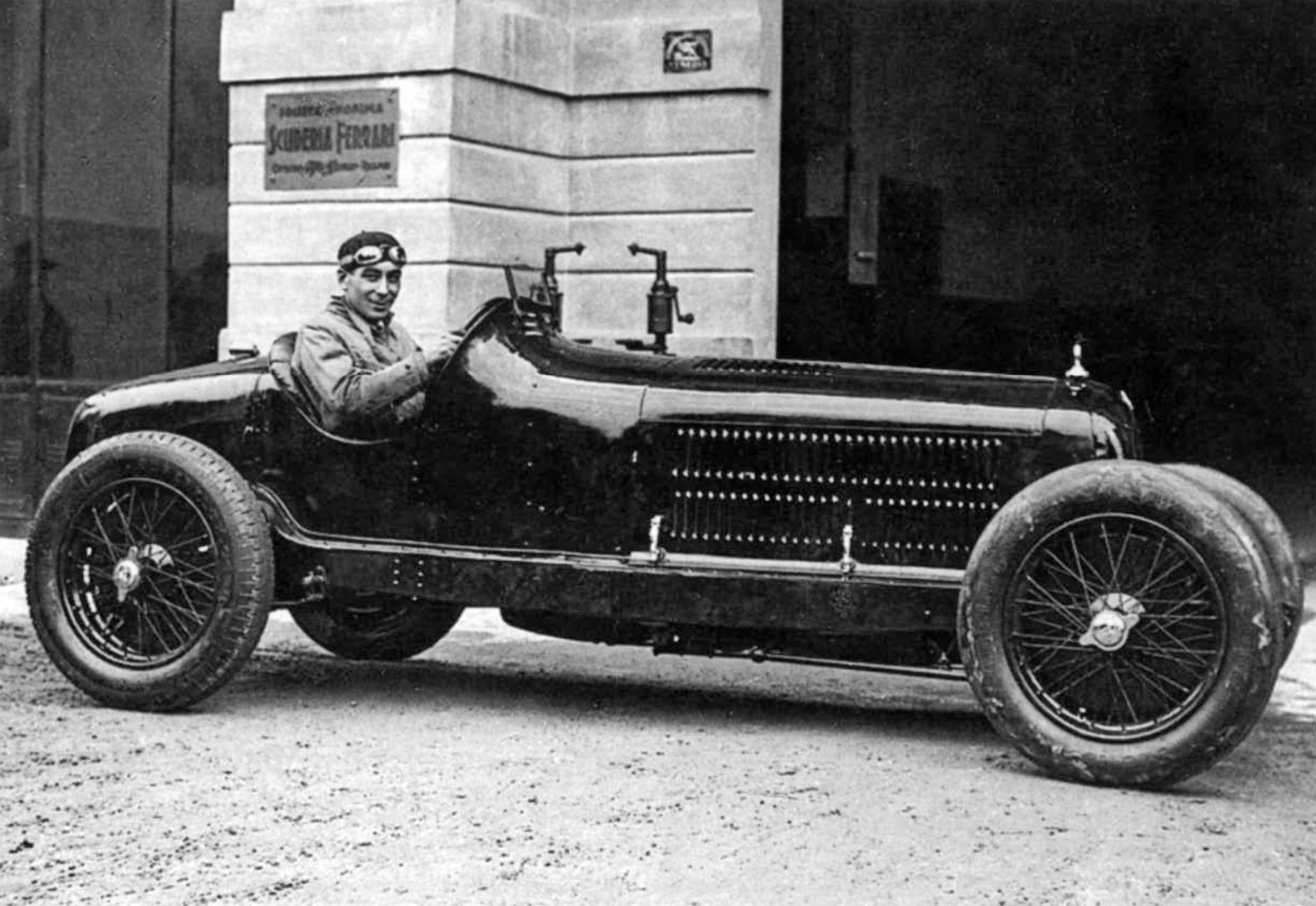 Racing driver Eugenio Siena in what seems to be an Alfa Romeo 8C 2300 "Monza", probably in March 1932 (due to a very similar picture with Avanzo in it; claiming this particular car to be 2111030 or 2111031, which would mean it is some of the first made and delivered to Scuderia Ferrari.[1]). The plaque on the wall behind says "Scuderia Ferrari", an Alfa racing team which Siena was a part of. That means this is in Bologna.